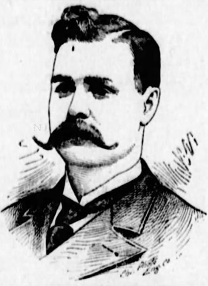 James McAndrews (Illinois Congressman)